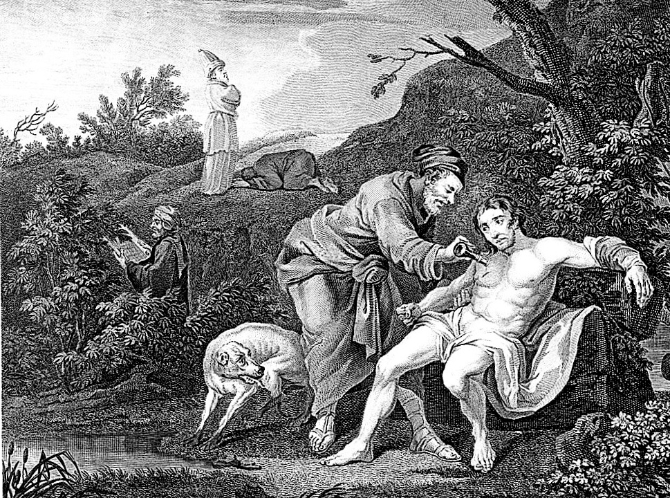 The Good Samaritan, from the original picture in St. Bartholomew's Hospital. Part of an original reproduction by Wellcome Images.